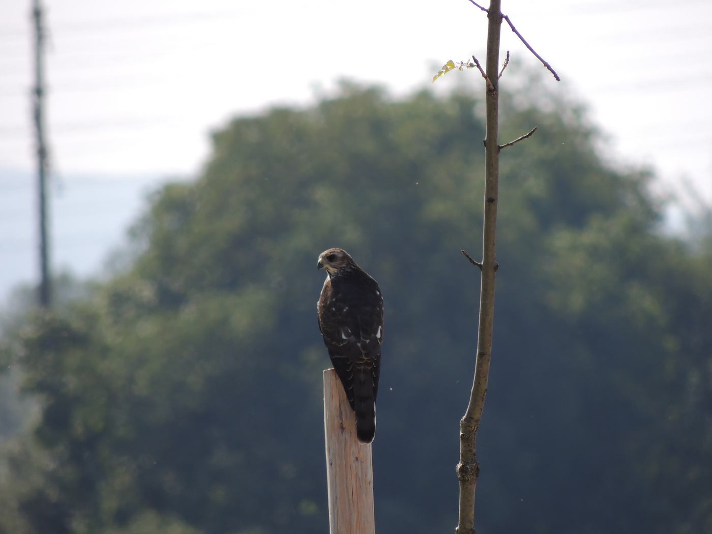 Levant sparrowhawk